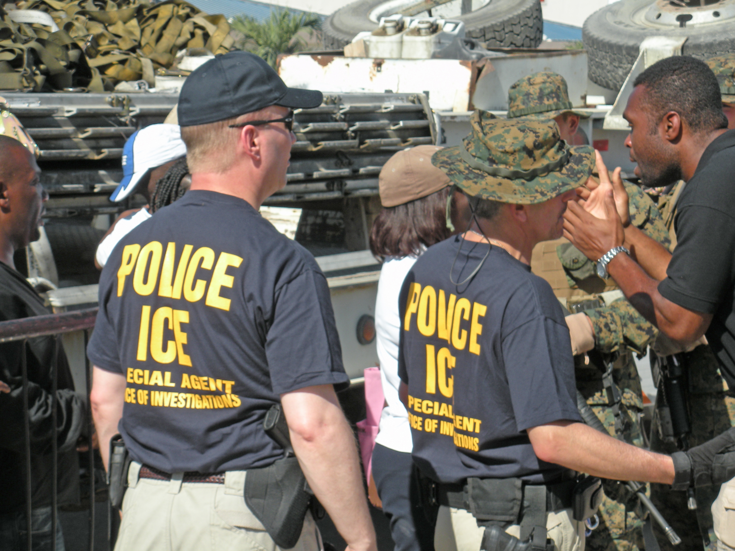 ICE suppporting Hati Relief Effort